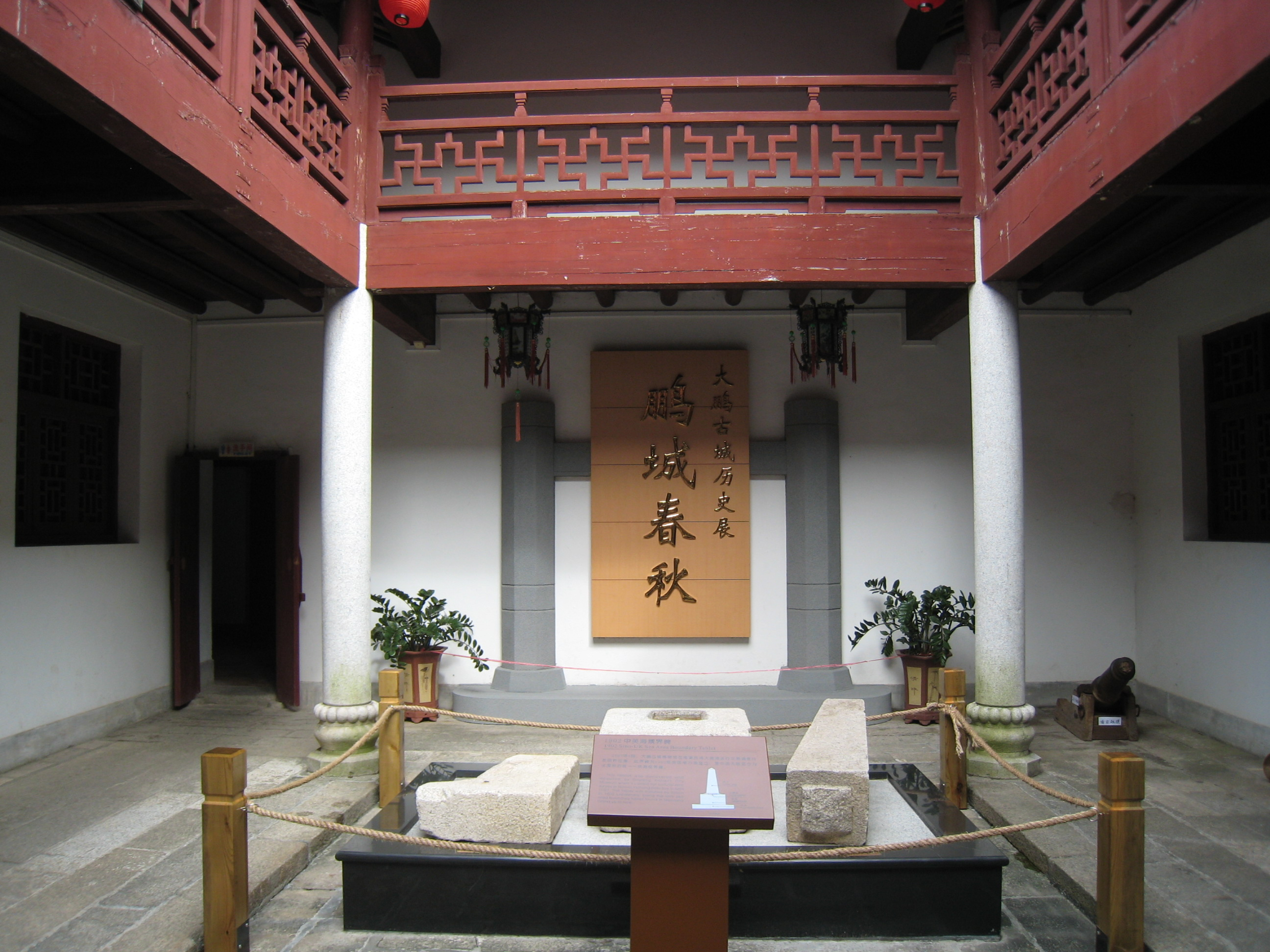 A tianjing (room with open hall) in Laifu.